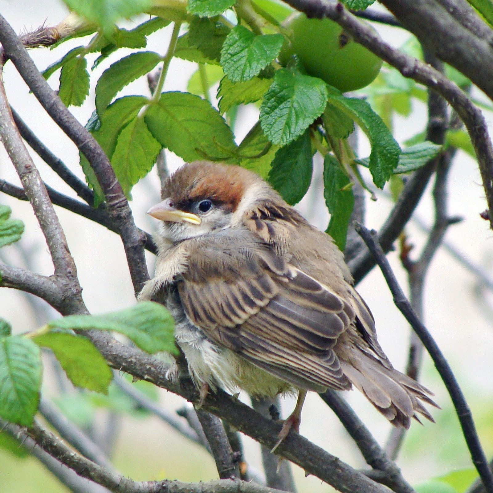 Tree Sparrow fledgeling